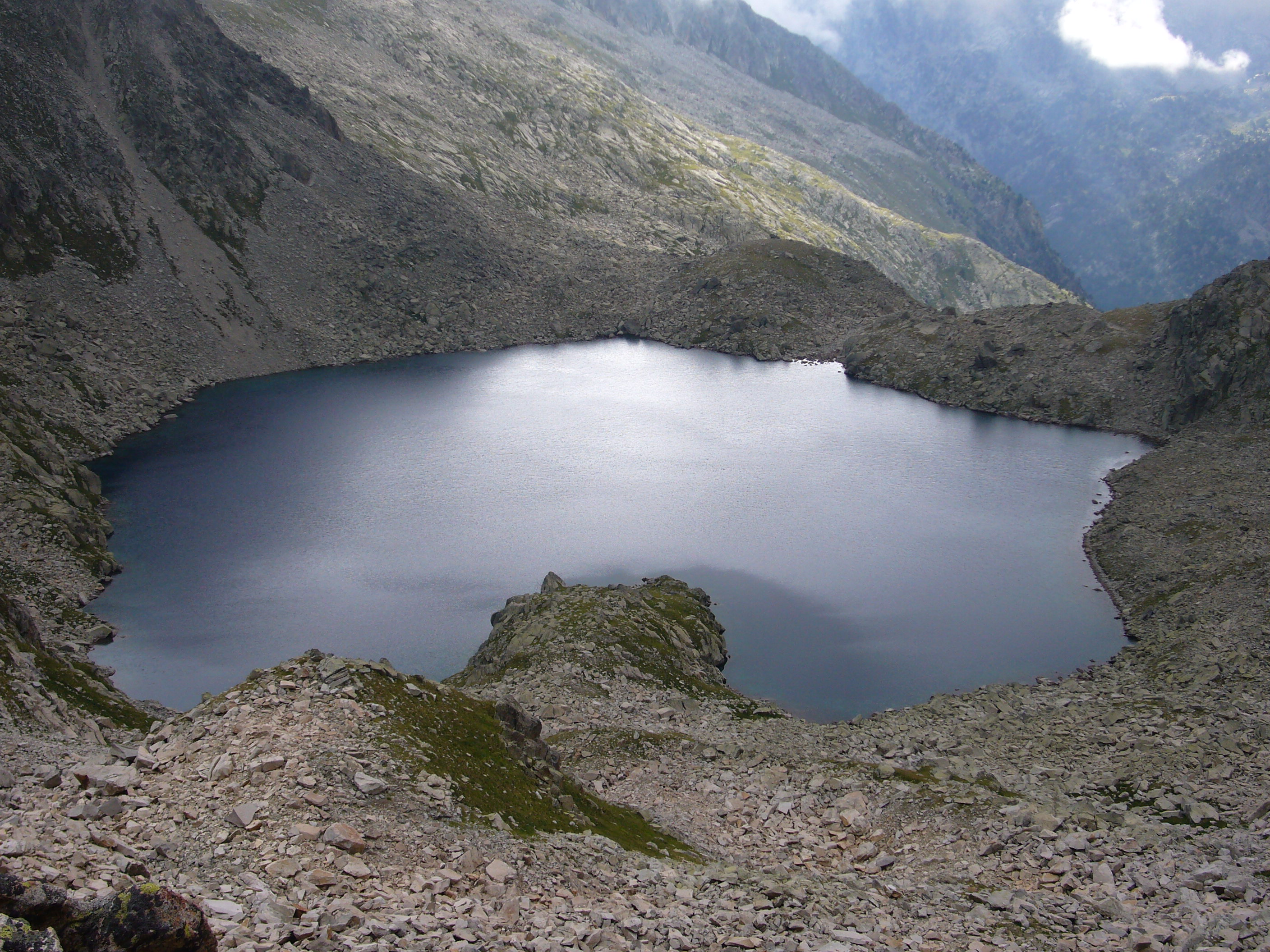 Estany de Contraix, la Vall de Boí, Alta Ribagorça, Catalonia